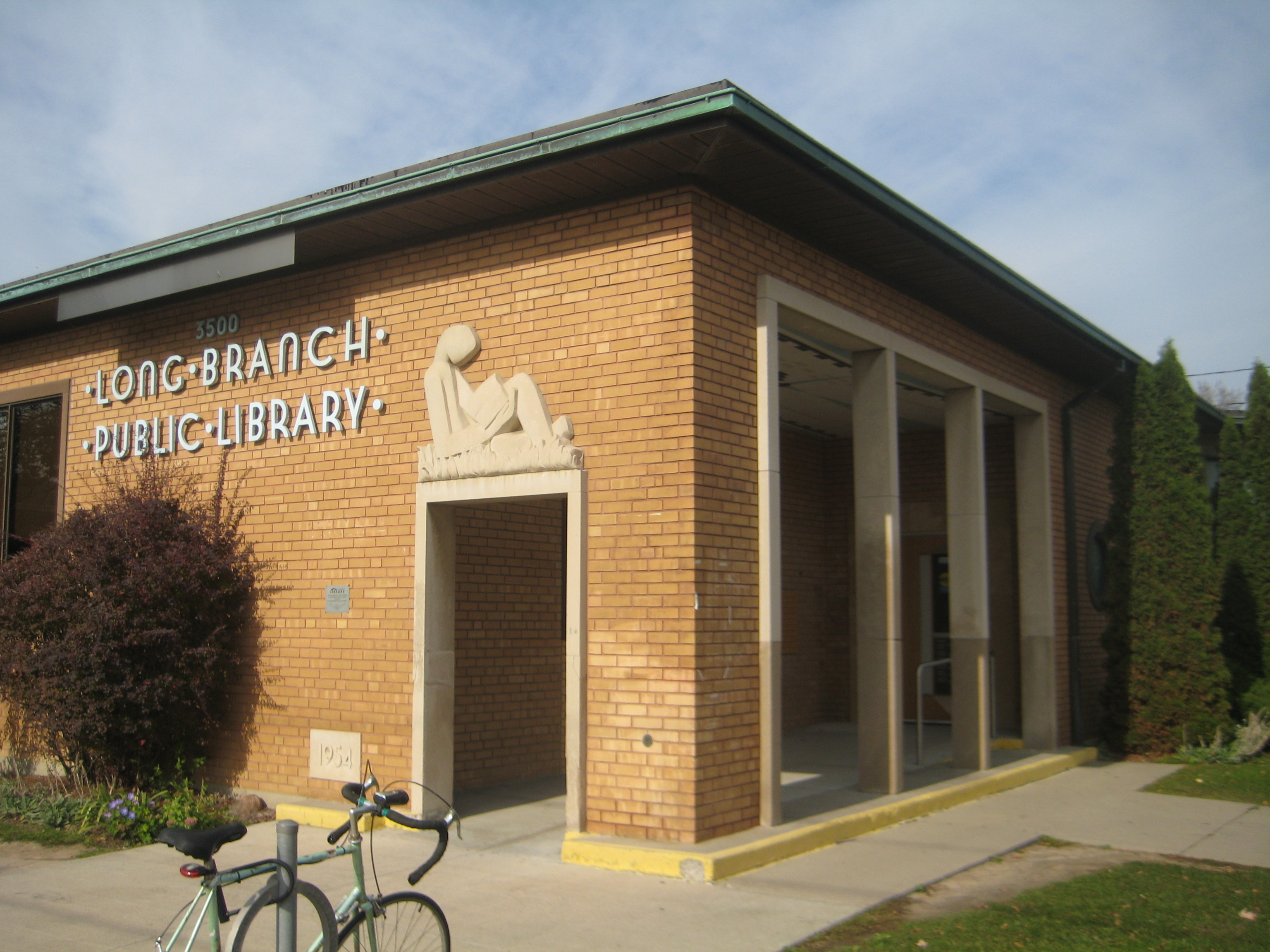 Longbranch Toronto Public Library branch